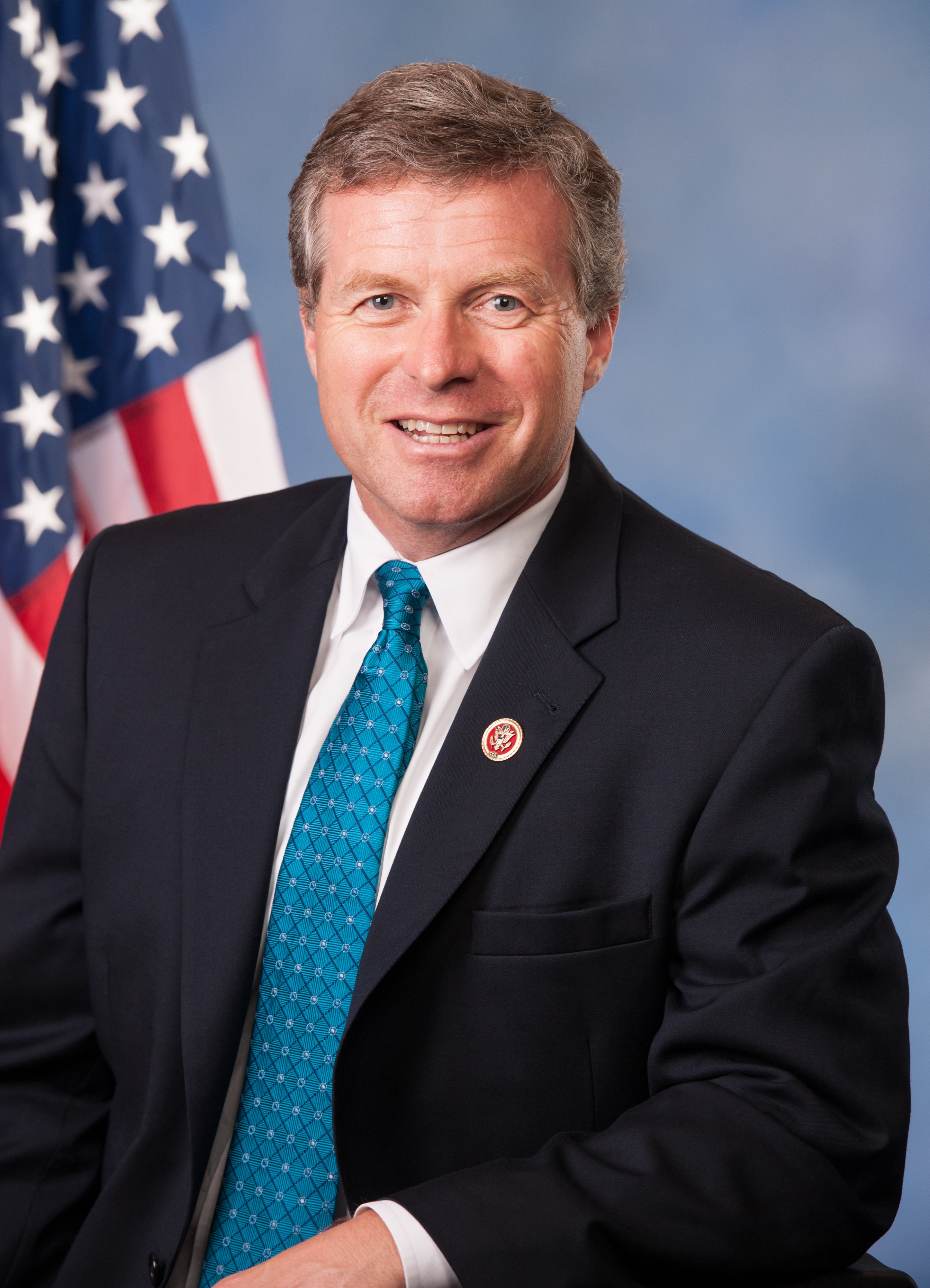 Charlie Dent, member of the United States Congress.